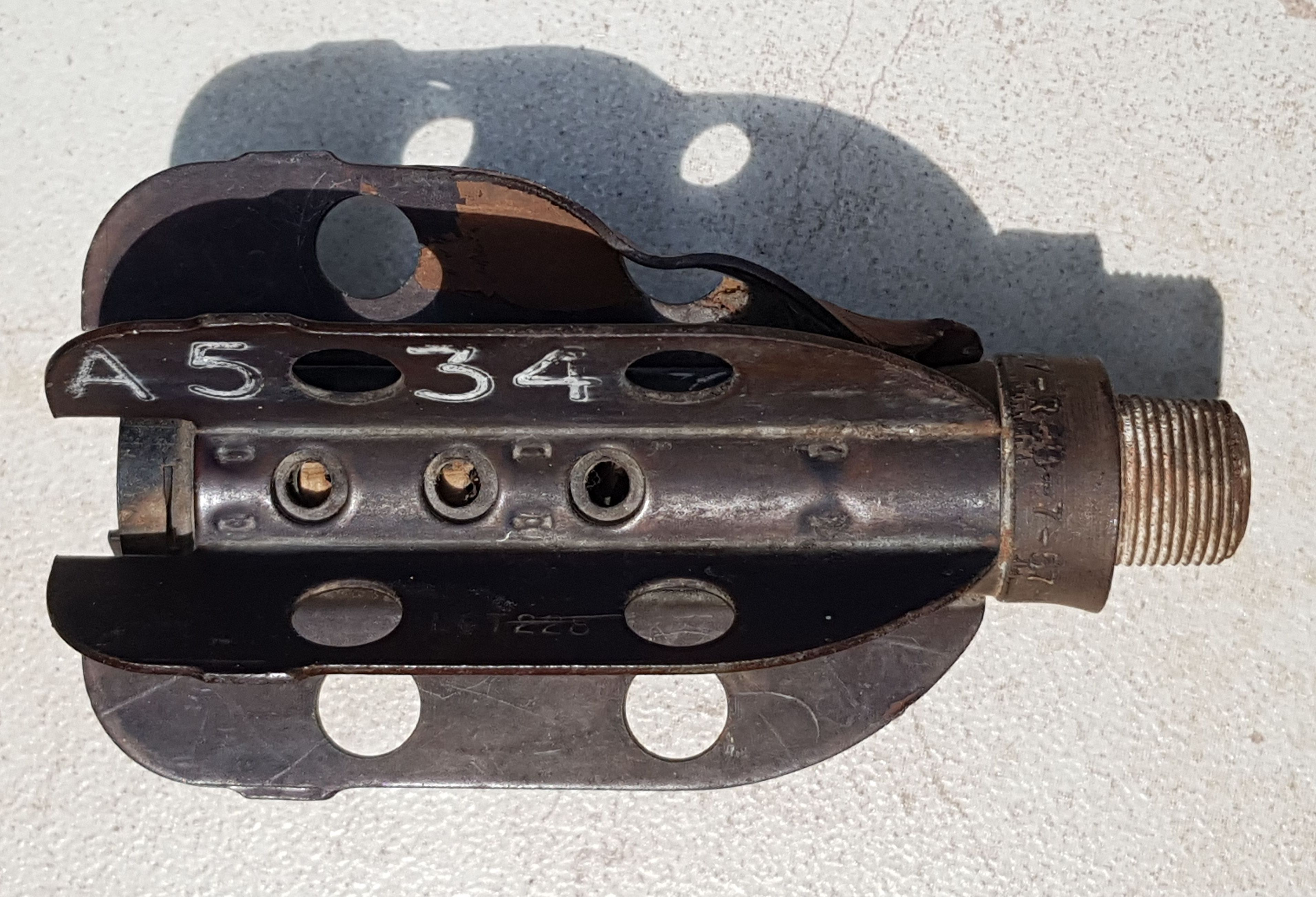 Tail unit of Ordnance ML 3 inch mortar bomb fired by Royal Jordanian Army on June 5th, 1967. The ICI made white phosphorus bomb landed on my roof in Jerusalem's Israeli part causing a minor damage.